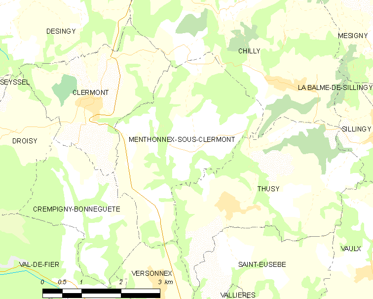 Map of French municipality Menthonnex-sous-Clermont